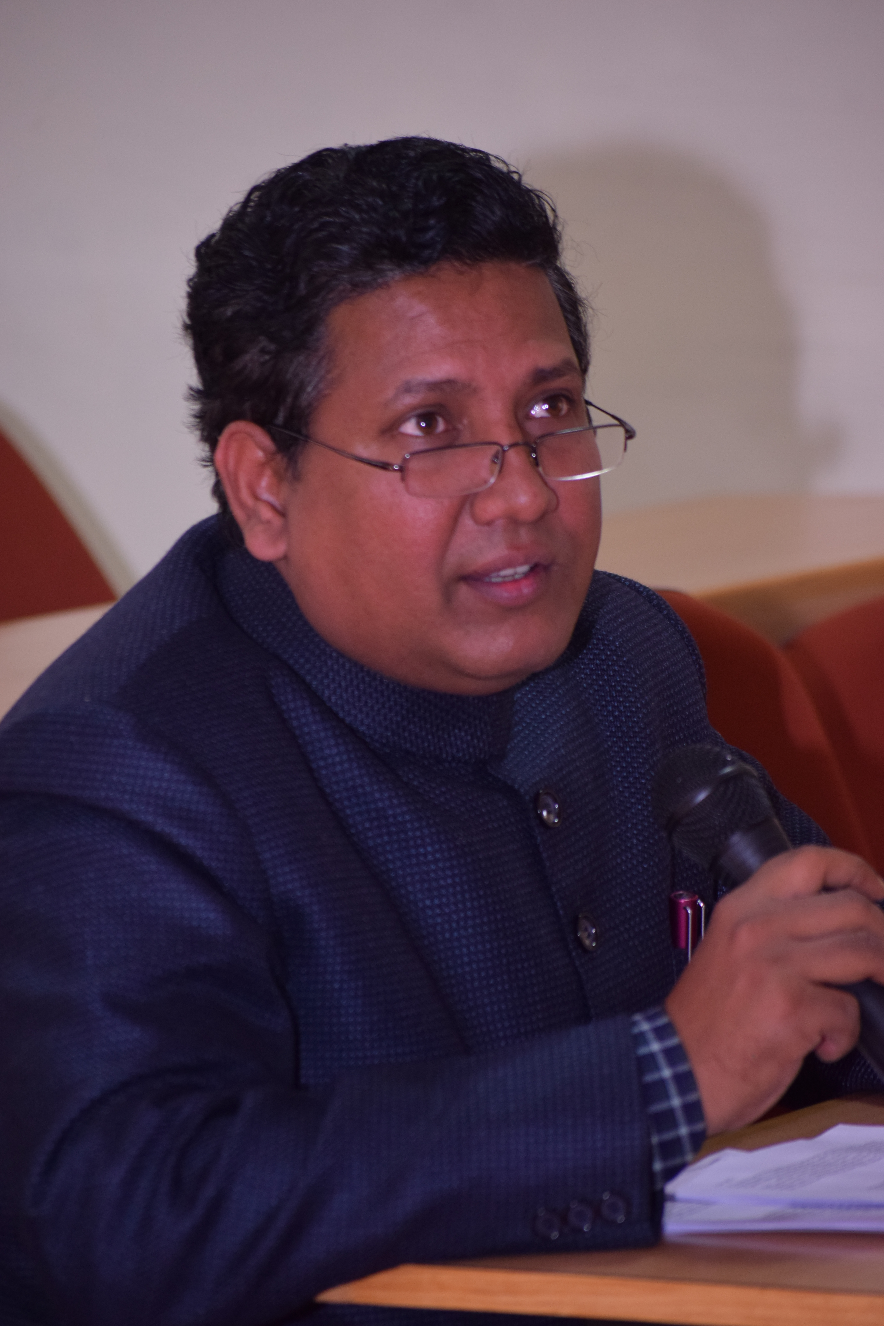 Prof Baharul Islam speaking at the Media and Public Policy Conf at IIM Kashipur, India on 22 Jan 2016